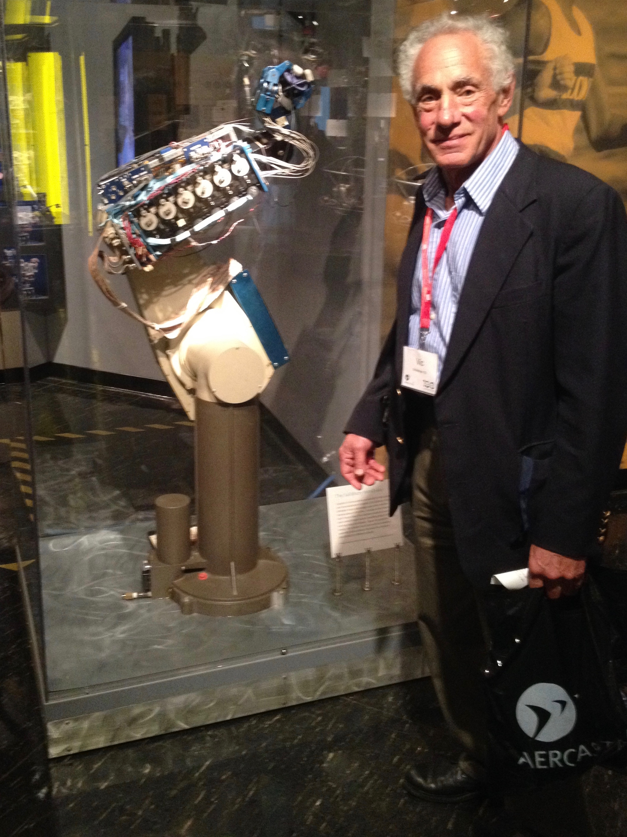 Victor Scheinman at the MIT Museum. The robot in the display case is a PUMA robot, which was developed by Scheinman. An experimental hand developed by Ken Salisbury is attached to the arm.